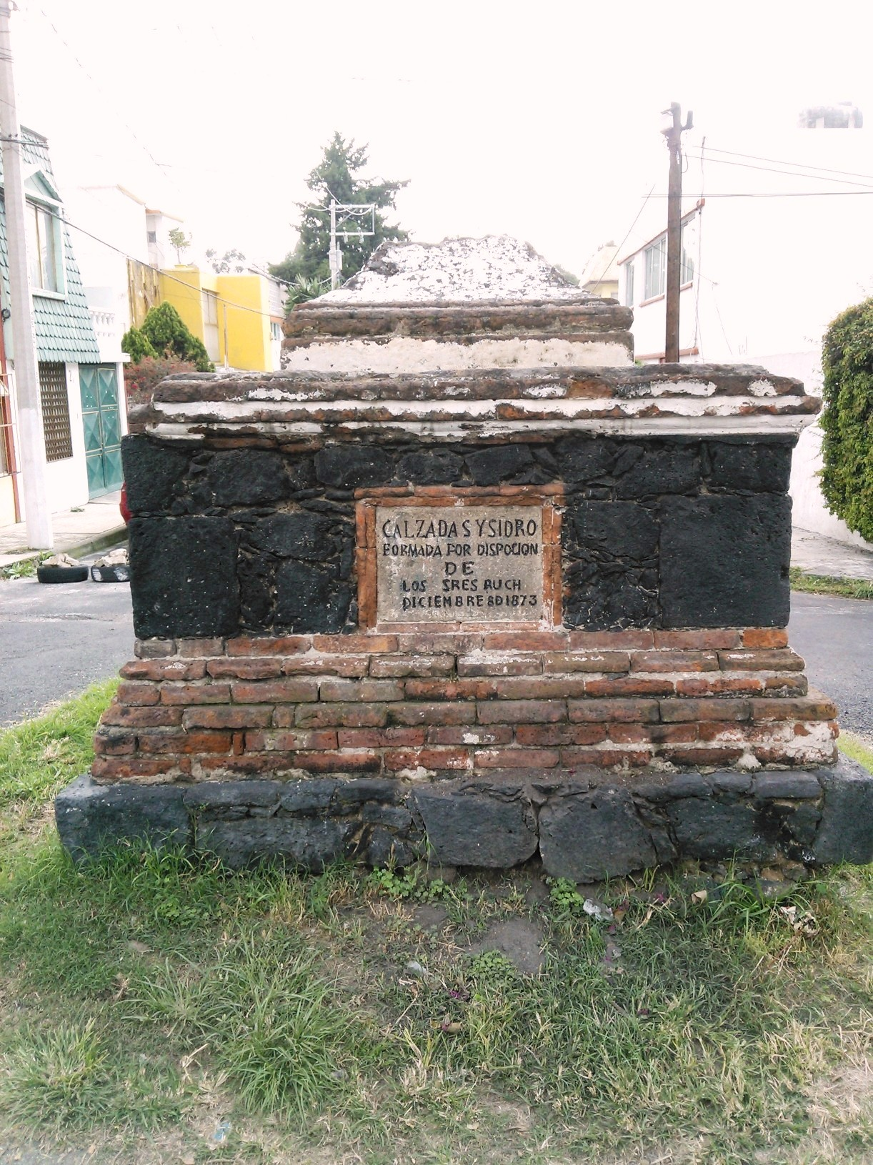 Mojonera on the Walkway of the Virgin in the grounds of the former hacienda of San Antonio de Coapa